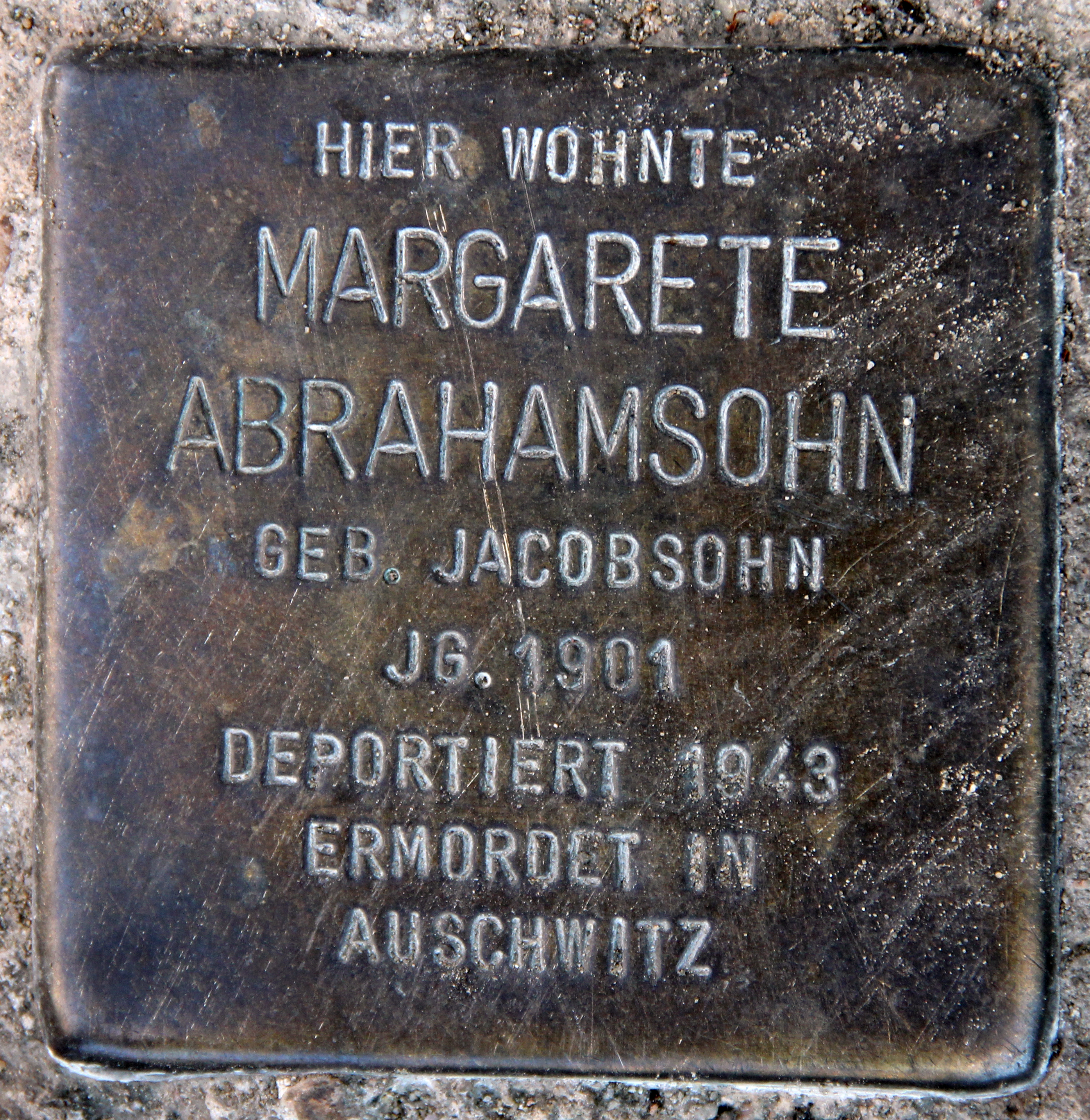 "Stolperstein" (stumbling block), Margarete Abrahamsohn, Zehdenicker Straße 2, Berlin-Prenzlauer Berg, Germany